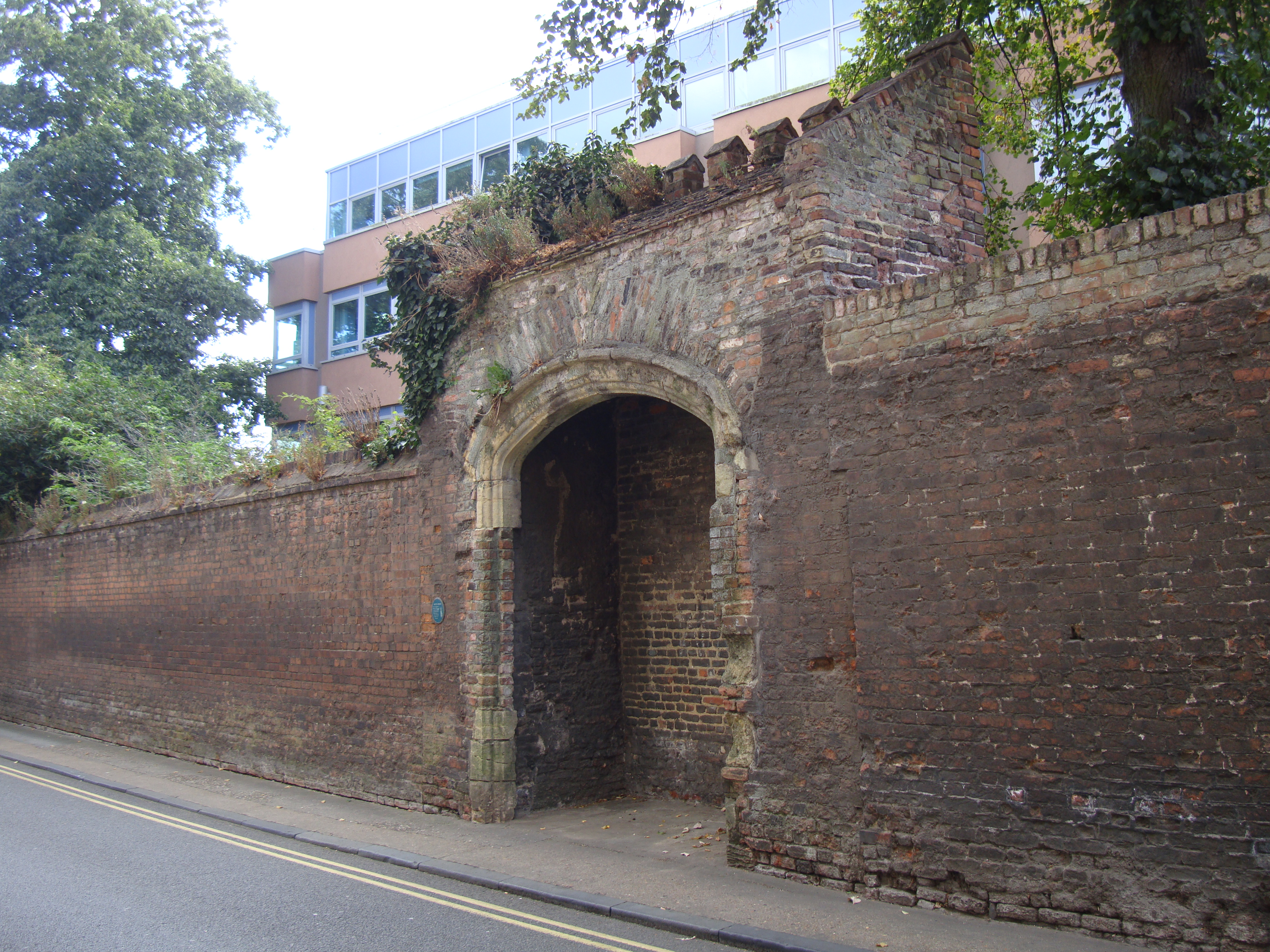 Blocked entrance arch of the former Augustinian Friary, Austin Street, King's Lynn, Norfolk, England, seen from the northwest